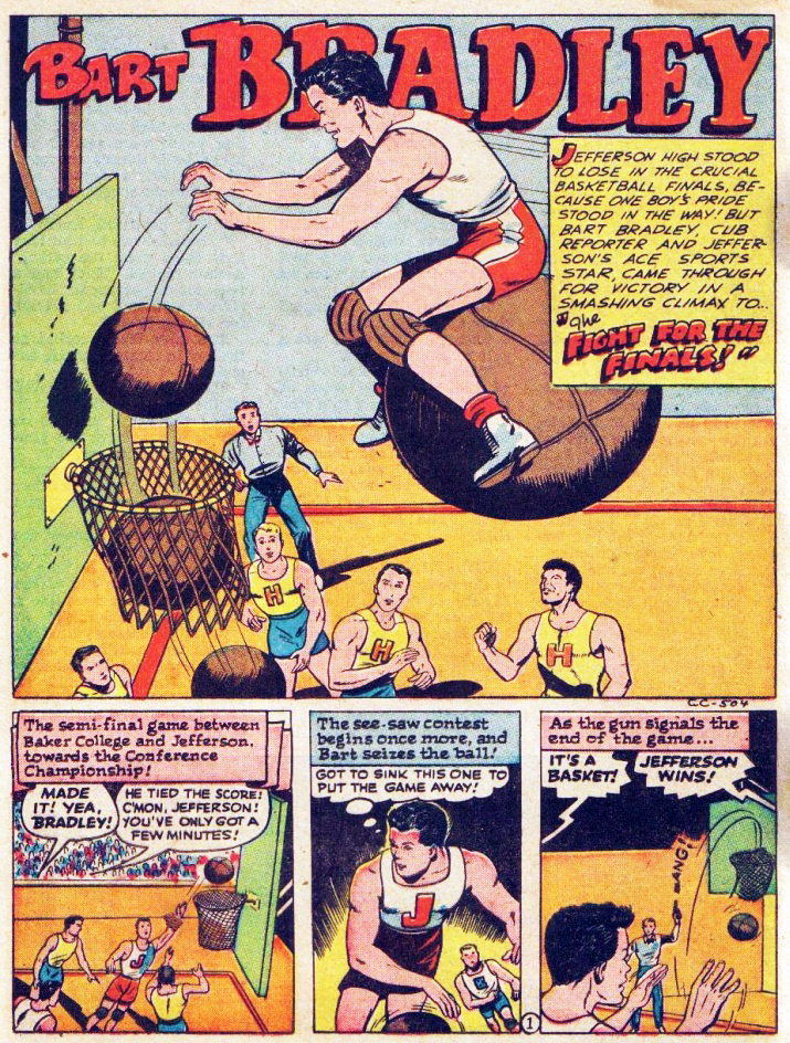 Strip of a basketball game.